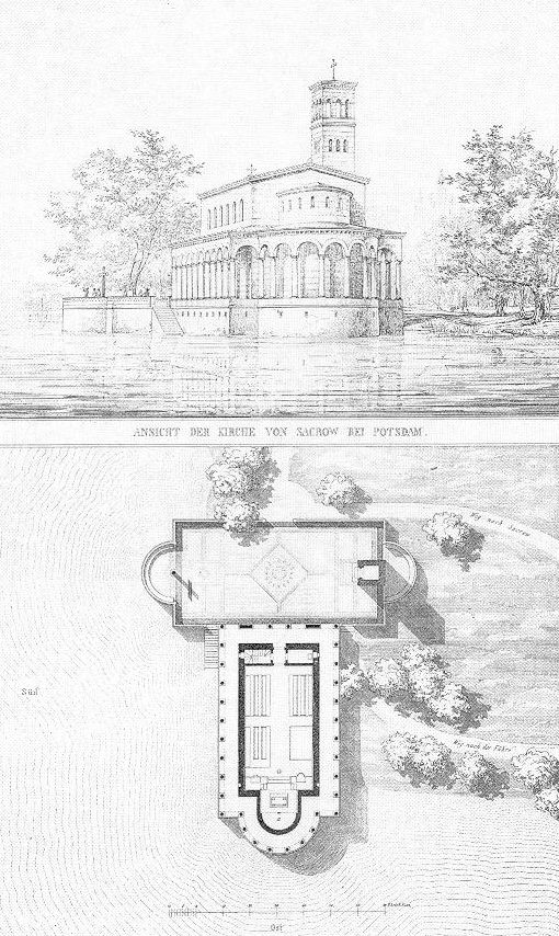 Elevation and ground plan, Heilandskirche am Port von Sacrow, Potsdam-Sacrow, Germany